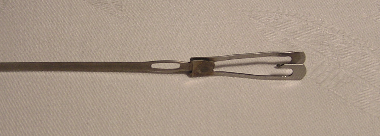 picture of the end of a repair heddle, showing how it opens so it can be put on the shaft without pulling off all the other heddles first.